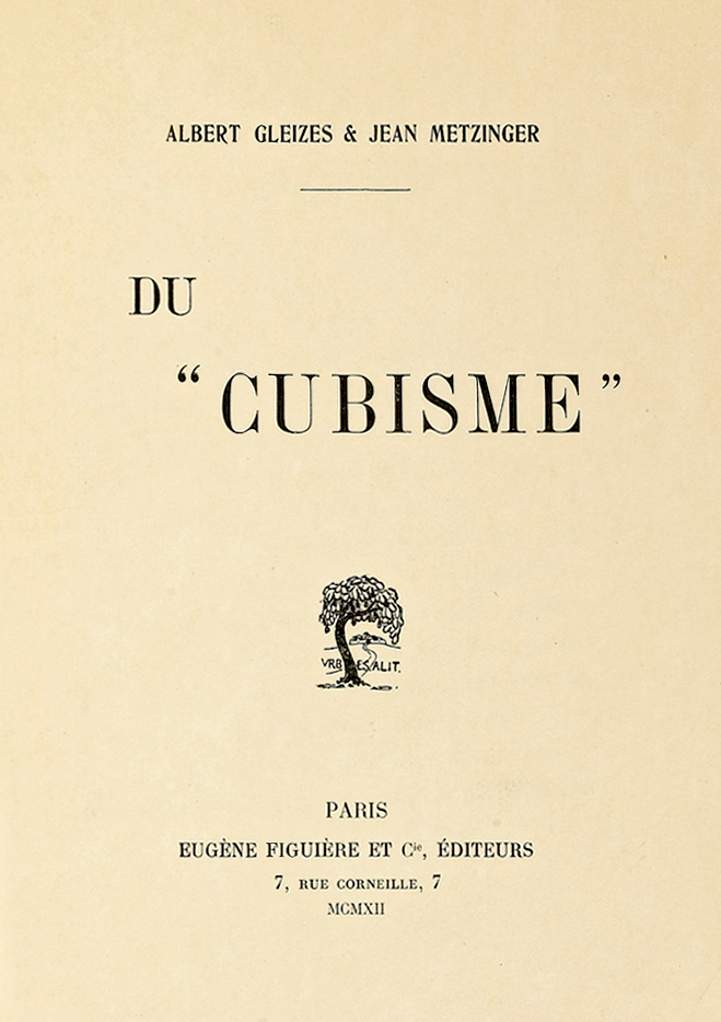 The French version of the cover of the book Du "Cubisme", 1912, by Jean Metzinger and Albert Gleizes, Eugène Figuière Éditeurs.